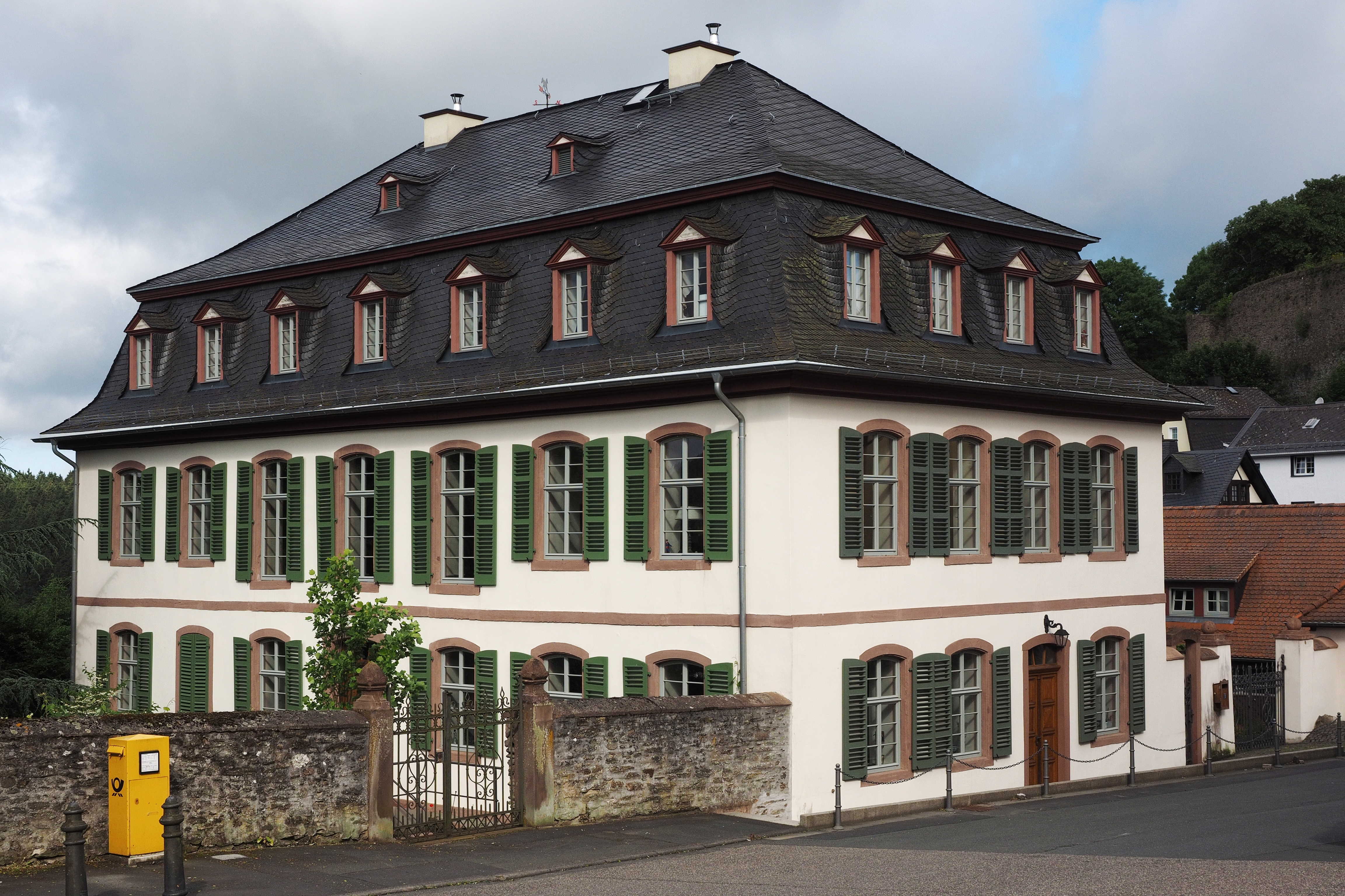 Bassenheim Palais, Oberreifenberg, Germany